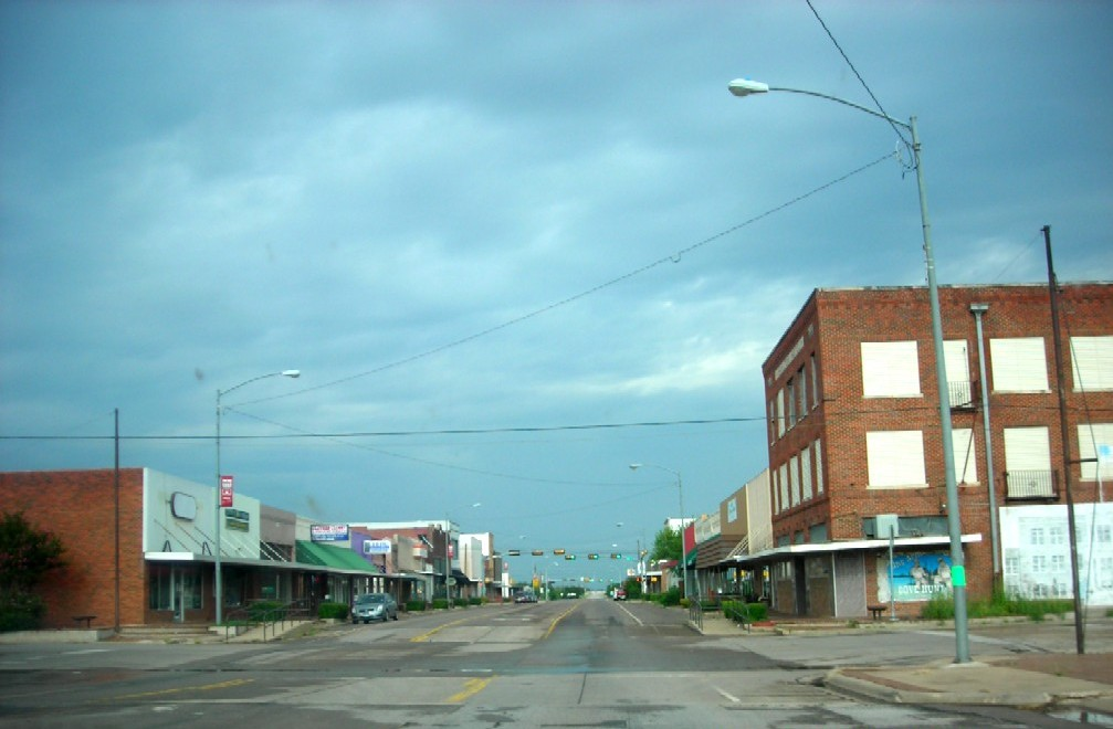 Downtown Olney, Texas, looking east along Texas State Highway 114.